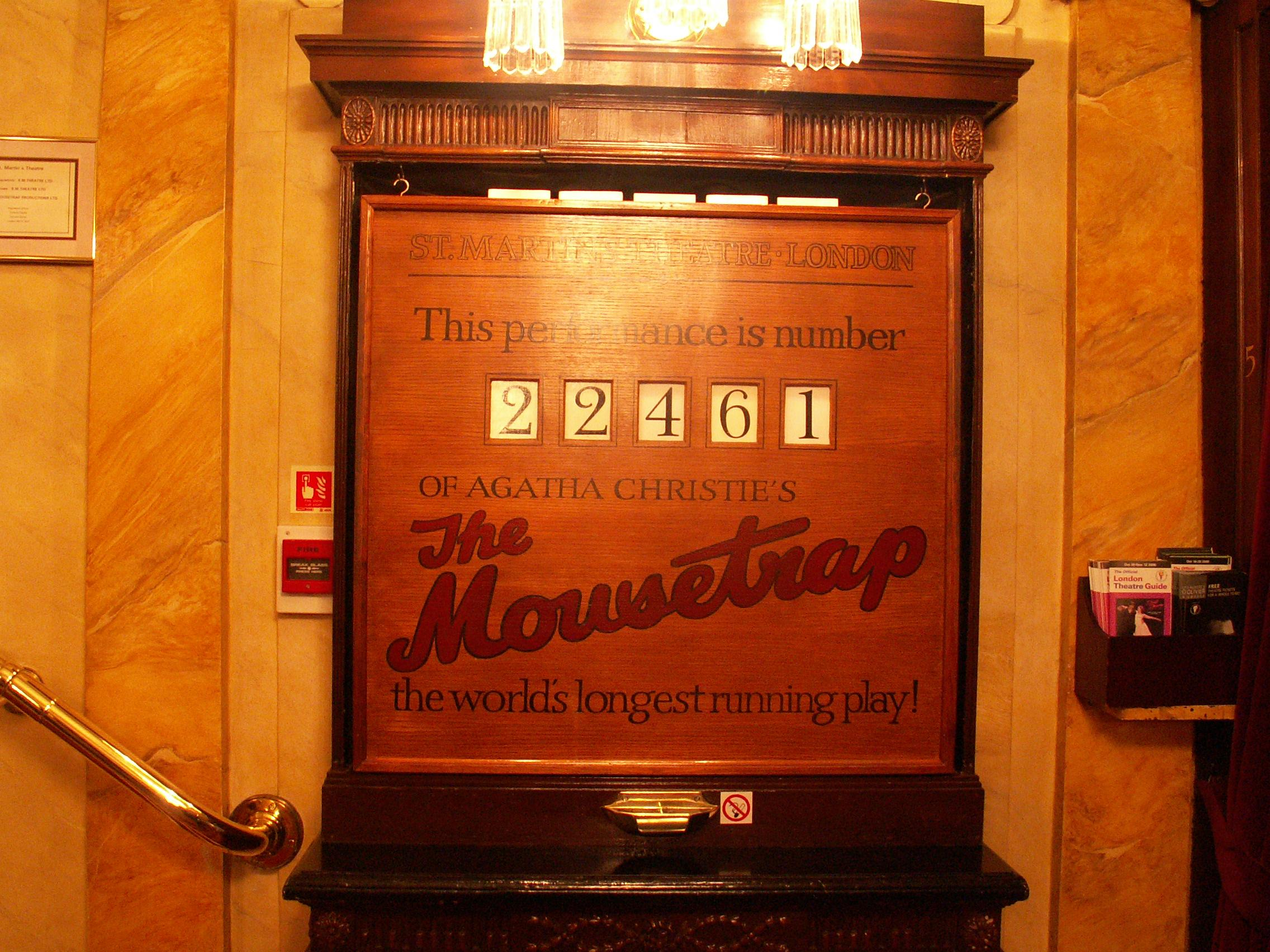 22461th performance of The Mousetrap (at St Martin's Theatre)